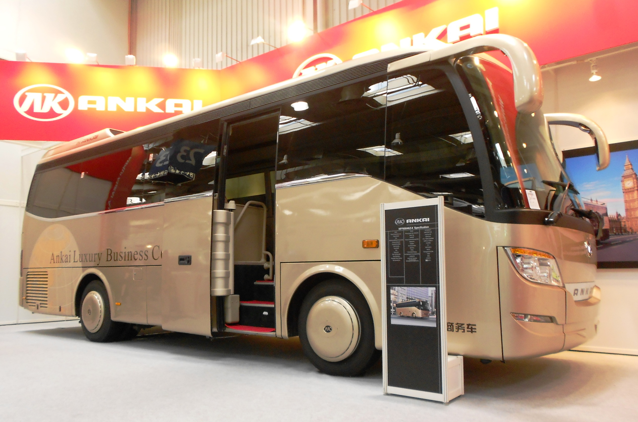 Ankai Luxury Coach HFF 6904KZ 8 (built 2012). On exhibition IAA 2012 in Hanover, Germany.